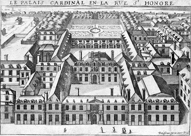 Bird's-eye view of the Palais Cardinal (future Palais Royal, Paris) looking toward the north from the south side of the rue Saint-Honoré